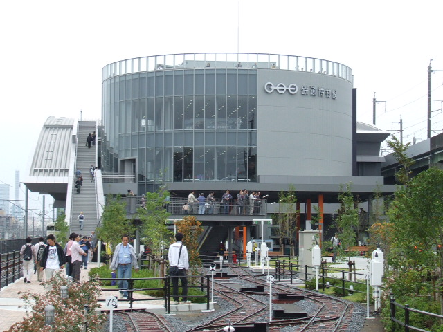 The Railway Museum in Saitama, Saitama Prefecture, Japan